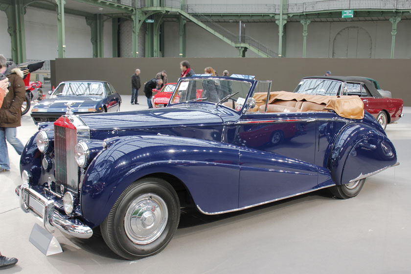 1950 Rolls-Royce Silver Dawn Drophead Coupe